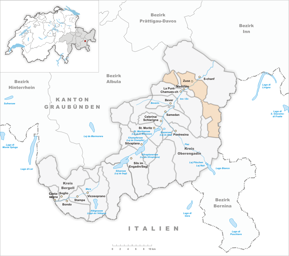 Municipality Zuoz